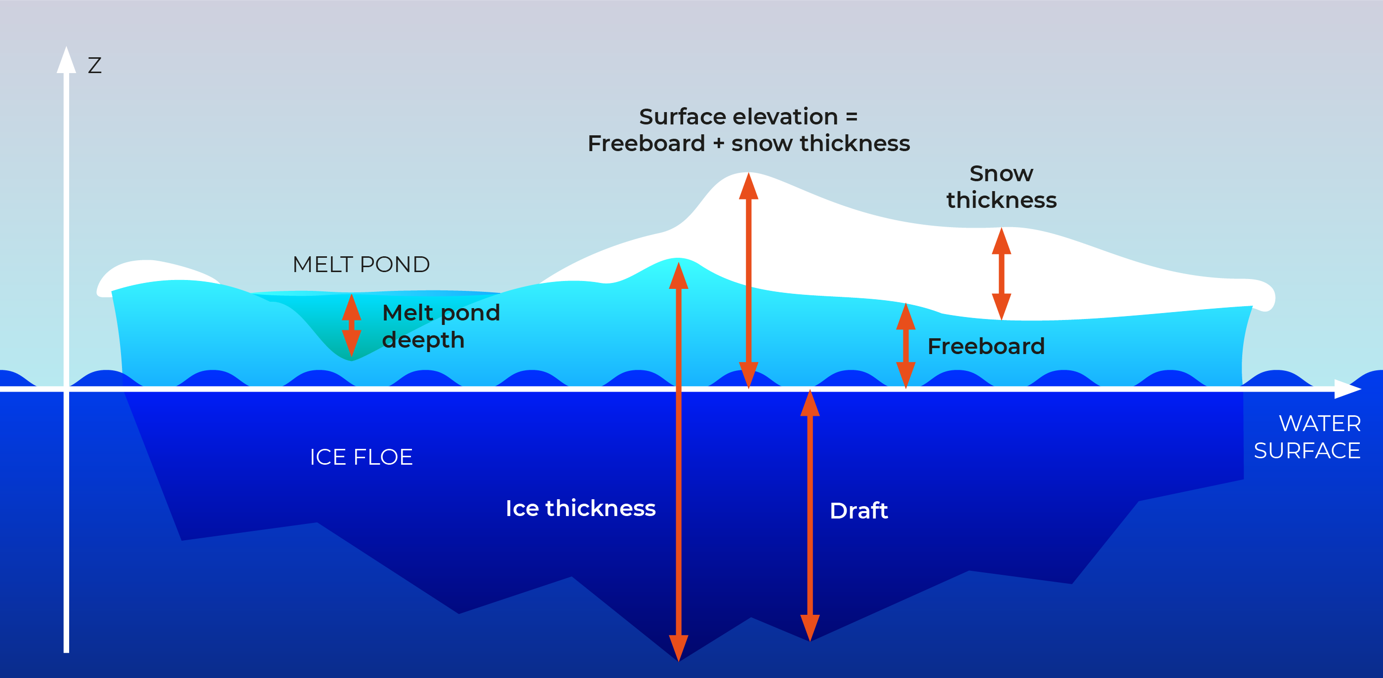 Section through an ice floe with parameters used in glaciological research to quantify and describe the coverage of sea ice Ice thickness: total thickness of the ice floe (draft + freeboard) Freeboard: part of the ice floe above the water surface (without snow) Draft: part of the ice floe below the water surface Snow thickness: maximum thickness of snow coverage on the ice floe Melt pond depth: maximum depth of a melt pond on the ice floe Melt pond bottom Z coordinate: distance between the water surface and the bottom of the melt pond